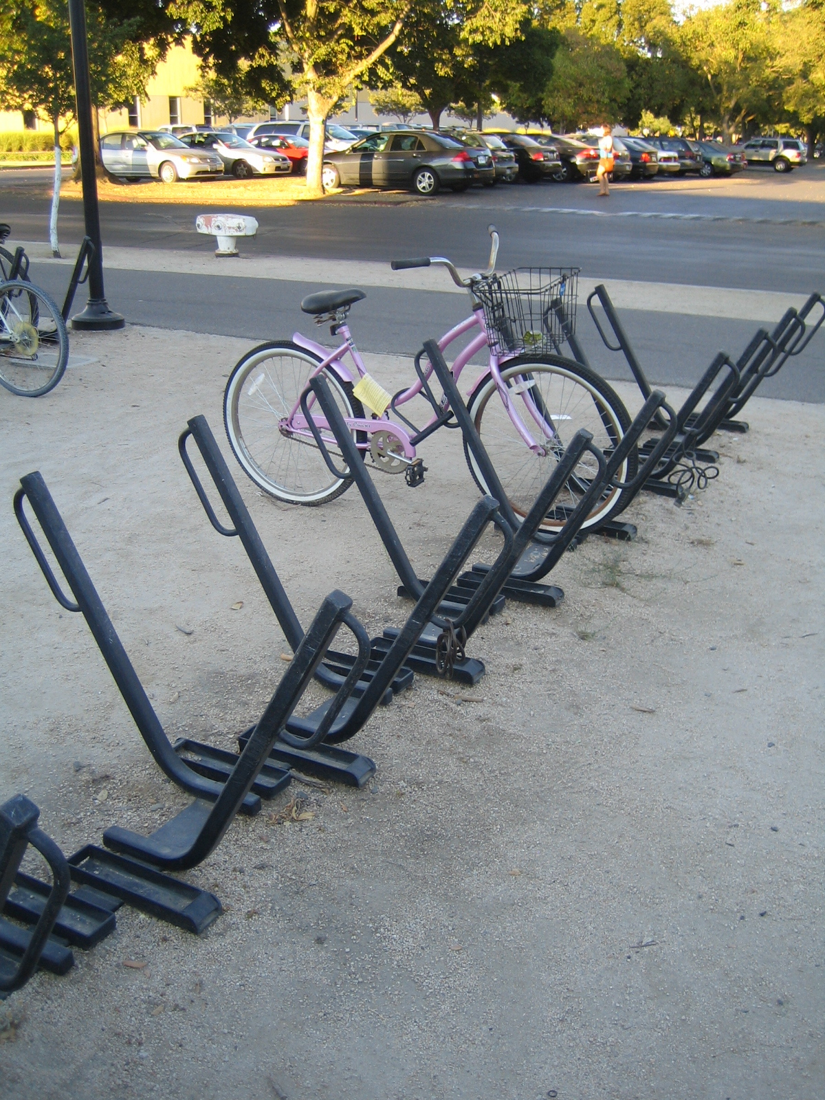 Typical bike rack of Davis, Ca